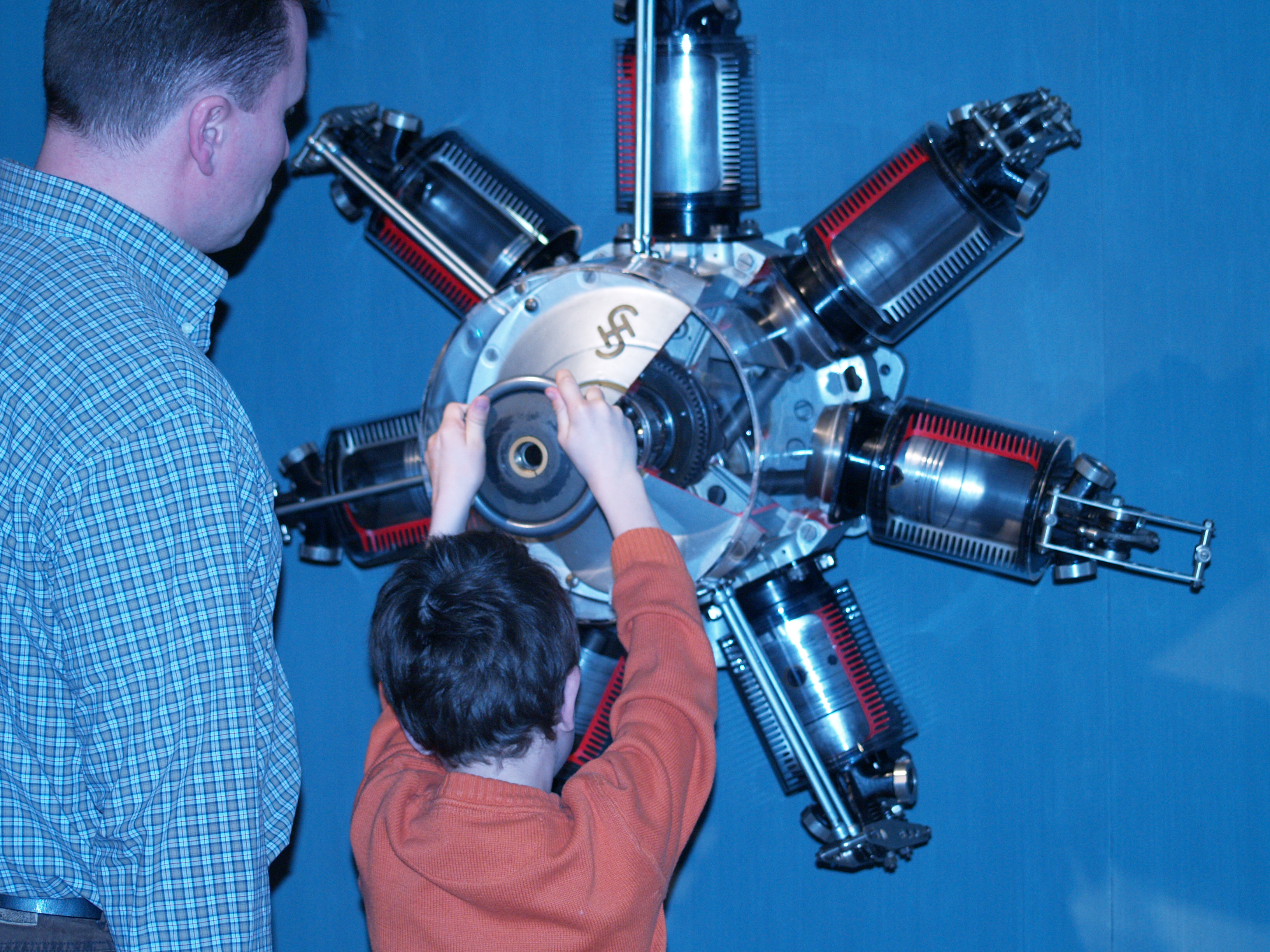 Deutsches Technikmuseum Berlin, a museum about general technology, ships, planes, cars and rails